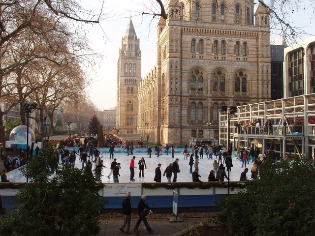 Busy ice rink at the Natural History Museum. At lunchtime on a weekday just before Christmas the rink was fully booked until the late evening. Beyond the rink is a Christmas market. See 613667 for the same rink a month before, almost empty.